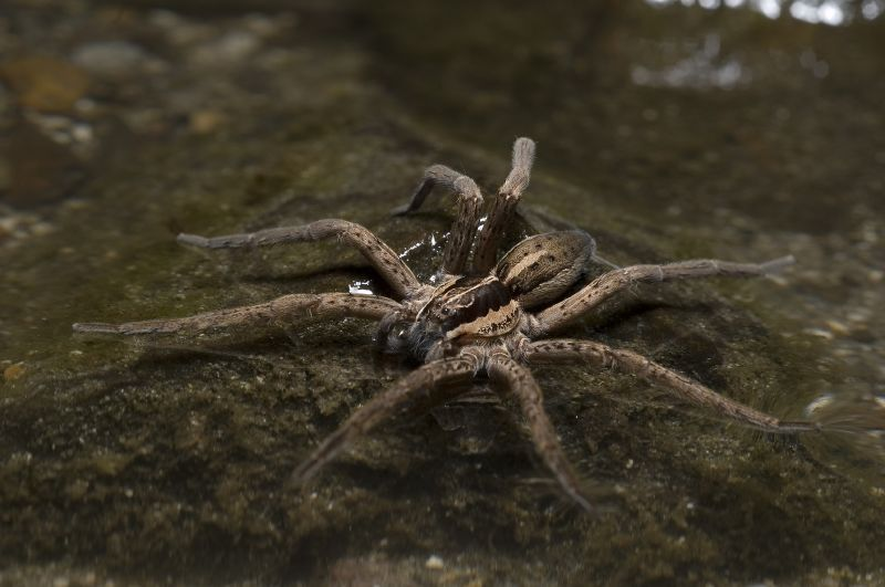 Nursery Web Spider Dolomedes minor, female sitting waiting on water for prey. D. minor and D. aquaticus and Dolomedes III can all walk on water also stay submerged for 20 minutes or so!